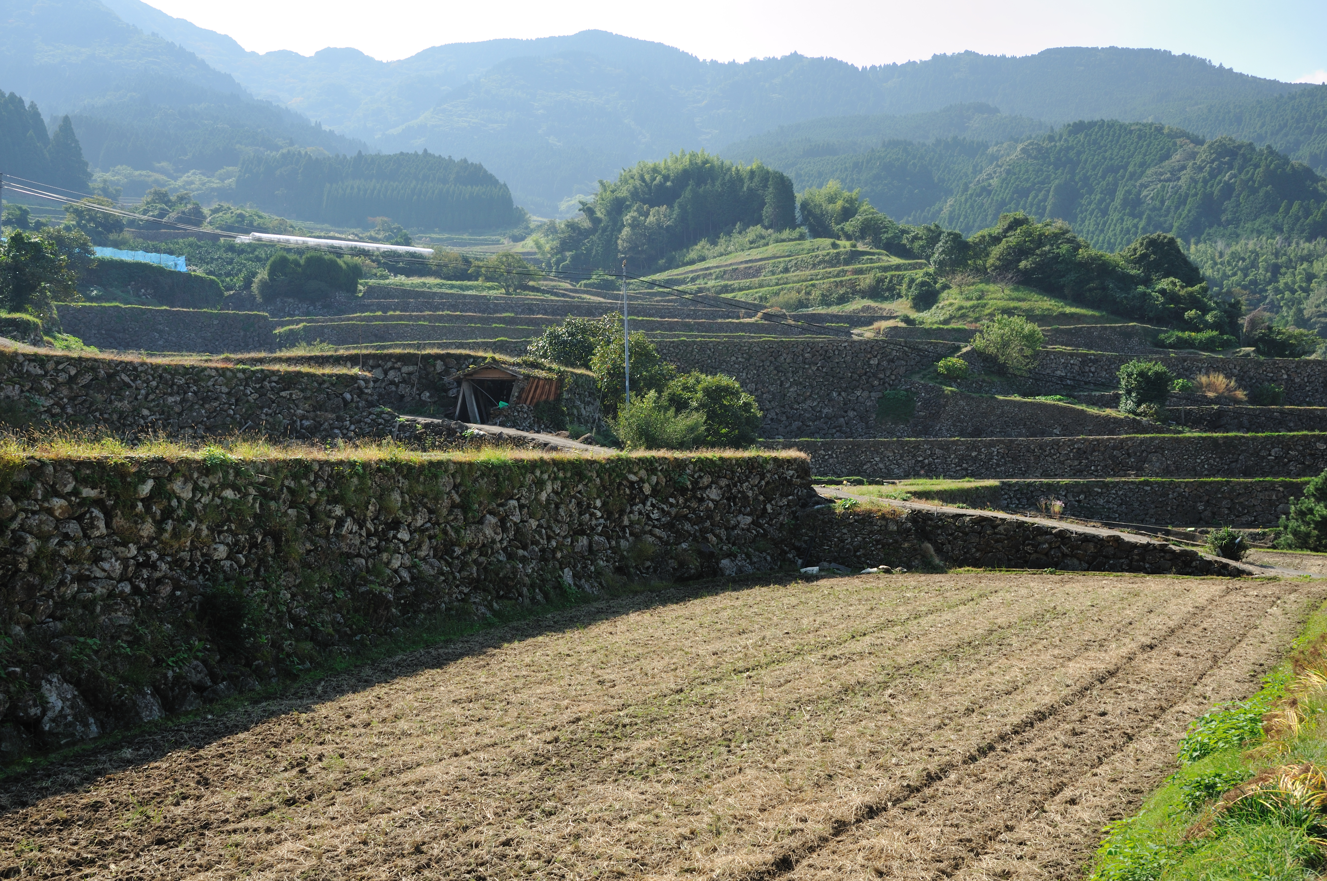 Rice terrace of Warabino(in Ouchi town, Karatsu city, Saga pref.).